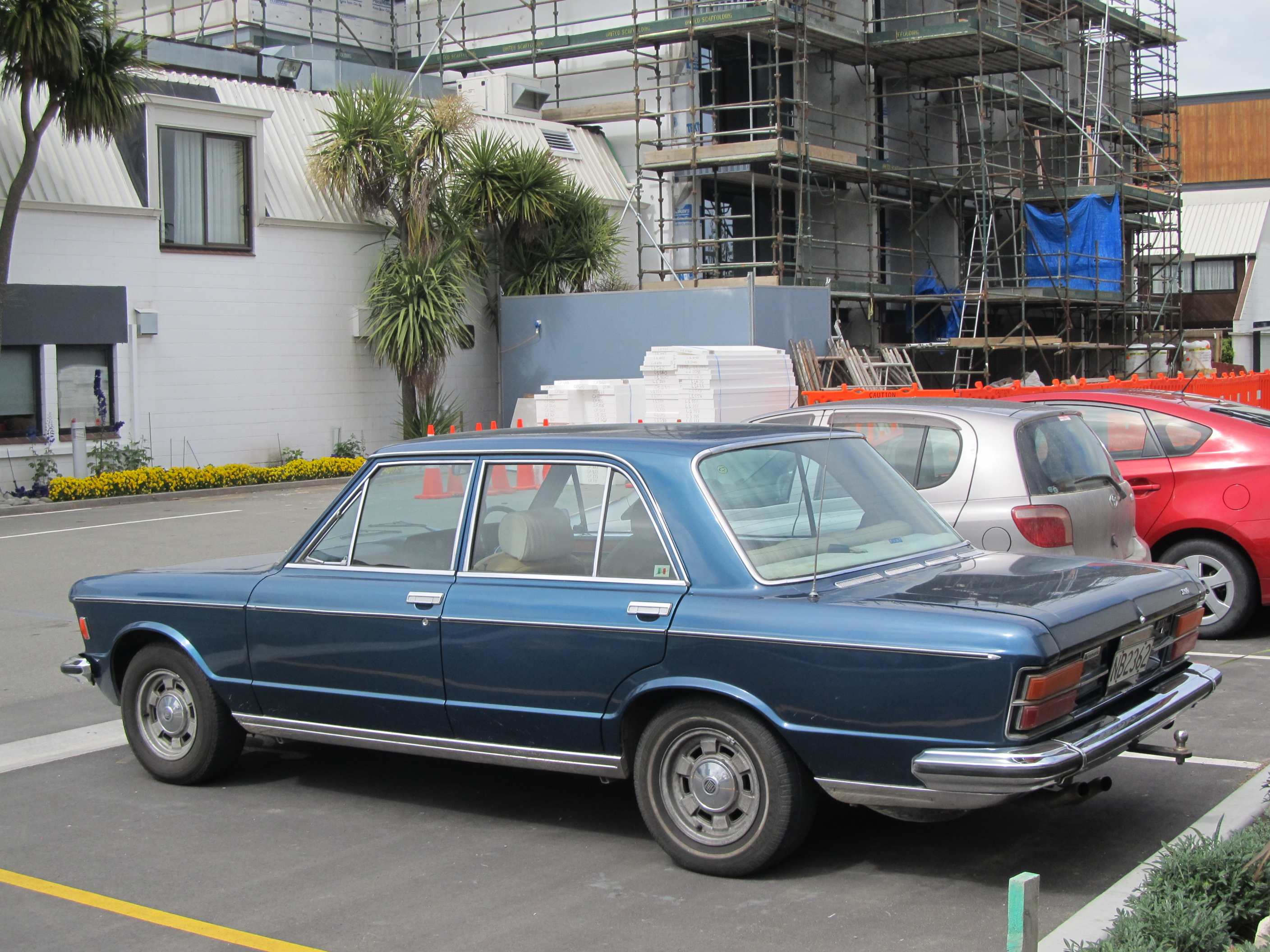 So good it deserved two photos!! I would never have known this was even parked there if I hadn't looked down the hotel driveway out of curiosity. It's an original New Zealand car as well!